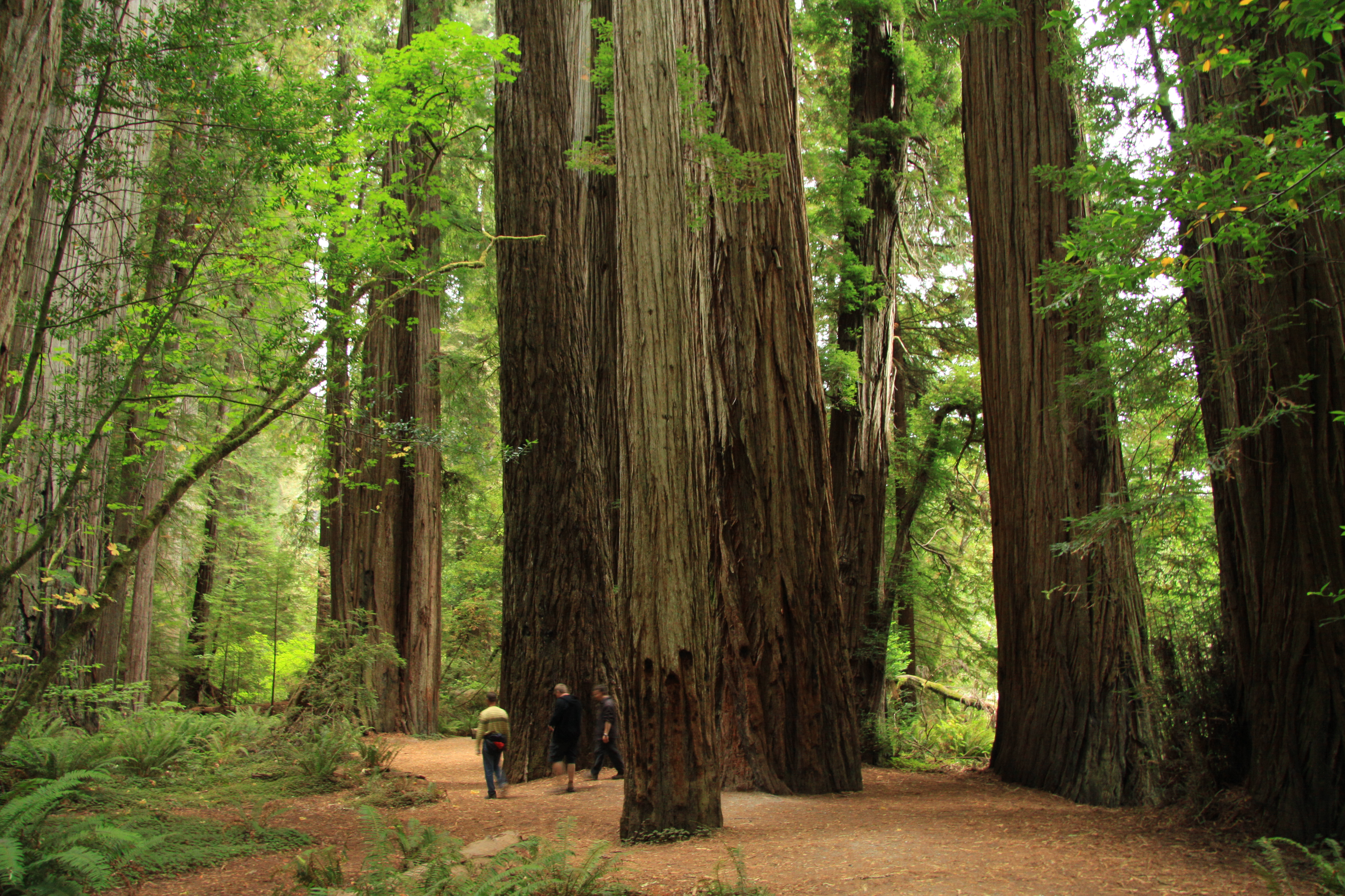 Stout Memorial Grove in Jedediah Smith Redwoods State Park near Crescent City in northern California, United States of America